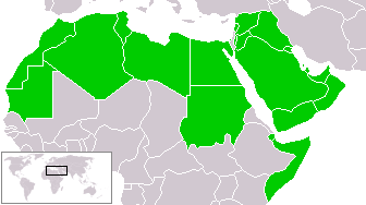 The Arab world, based on :Image:Israel and arab states map.png